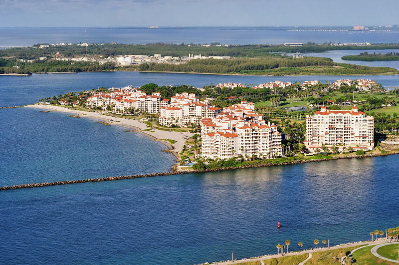 Fisher Island aerial view - June 2011